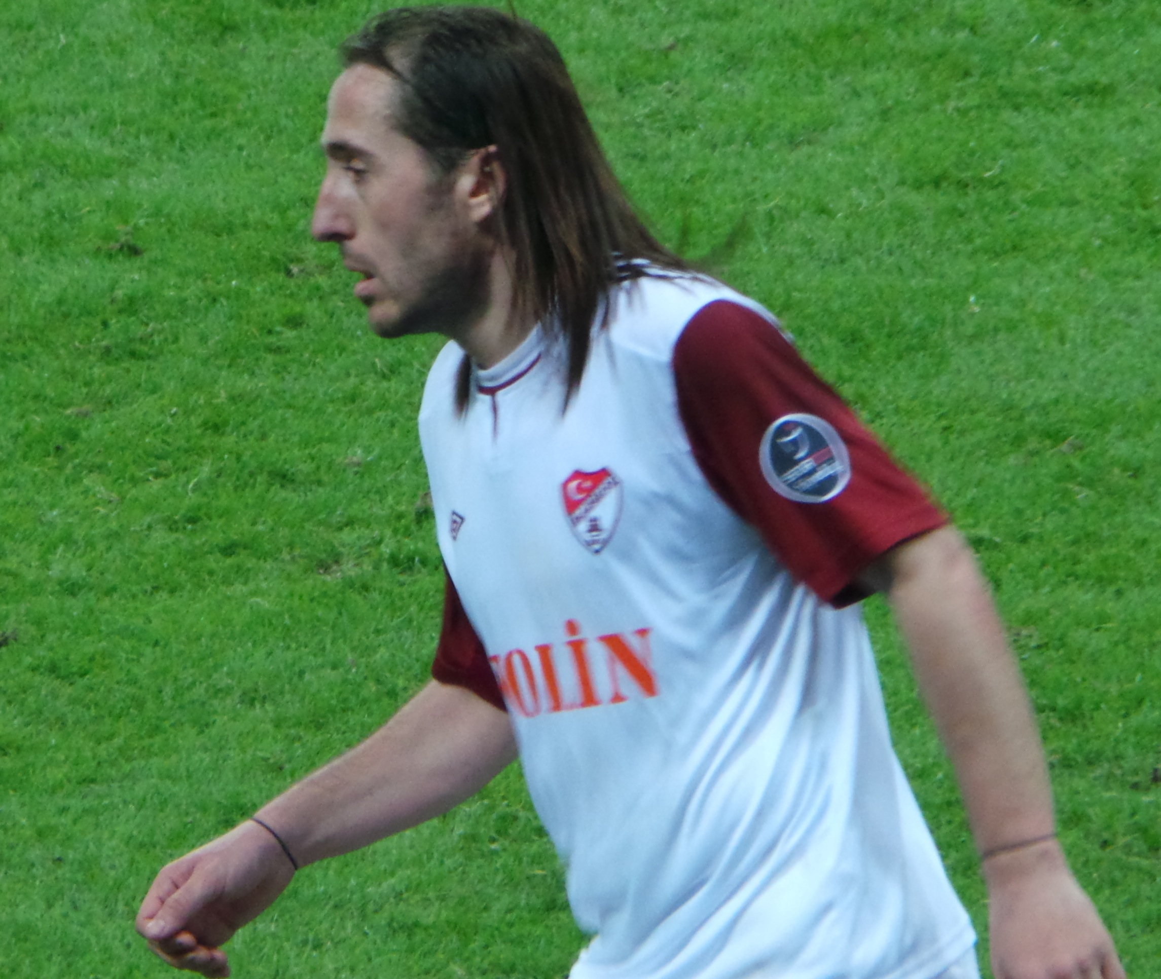 Köksal vs GS